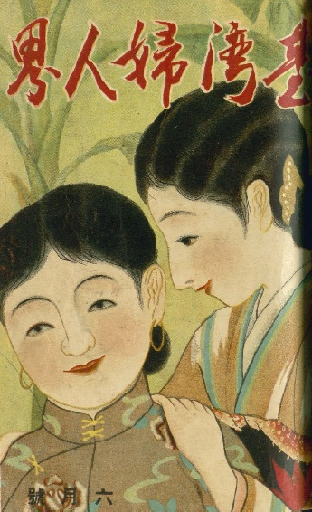 The cover of Taiwan Fujinkai (1-6), a Taiwanese female magazine under Japanese ruled period.